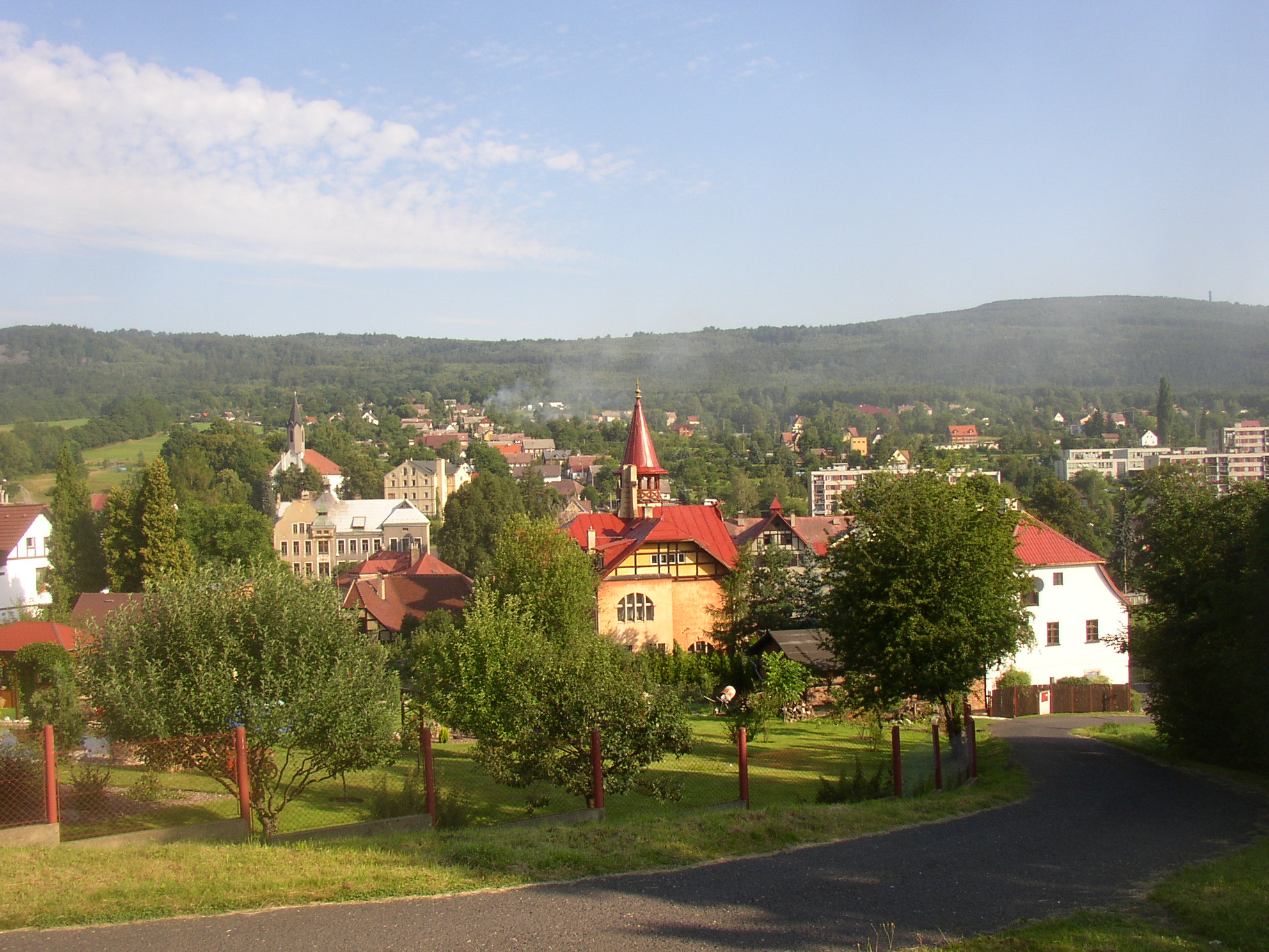 Jílové, Czech Republic. An overall view from south, in the background Děčínský Sněžník Mt. (723 m) with a lookout tower.